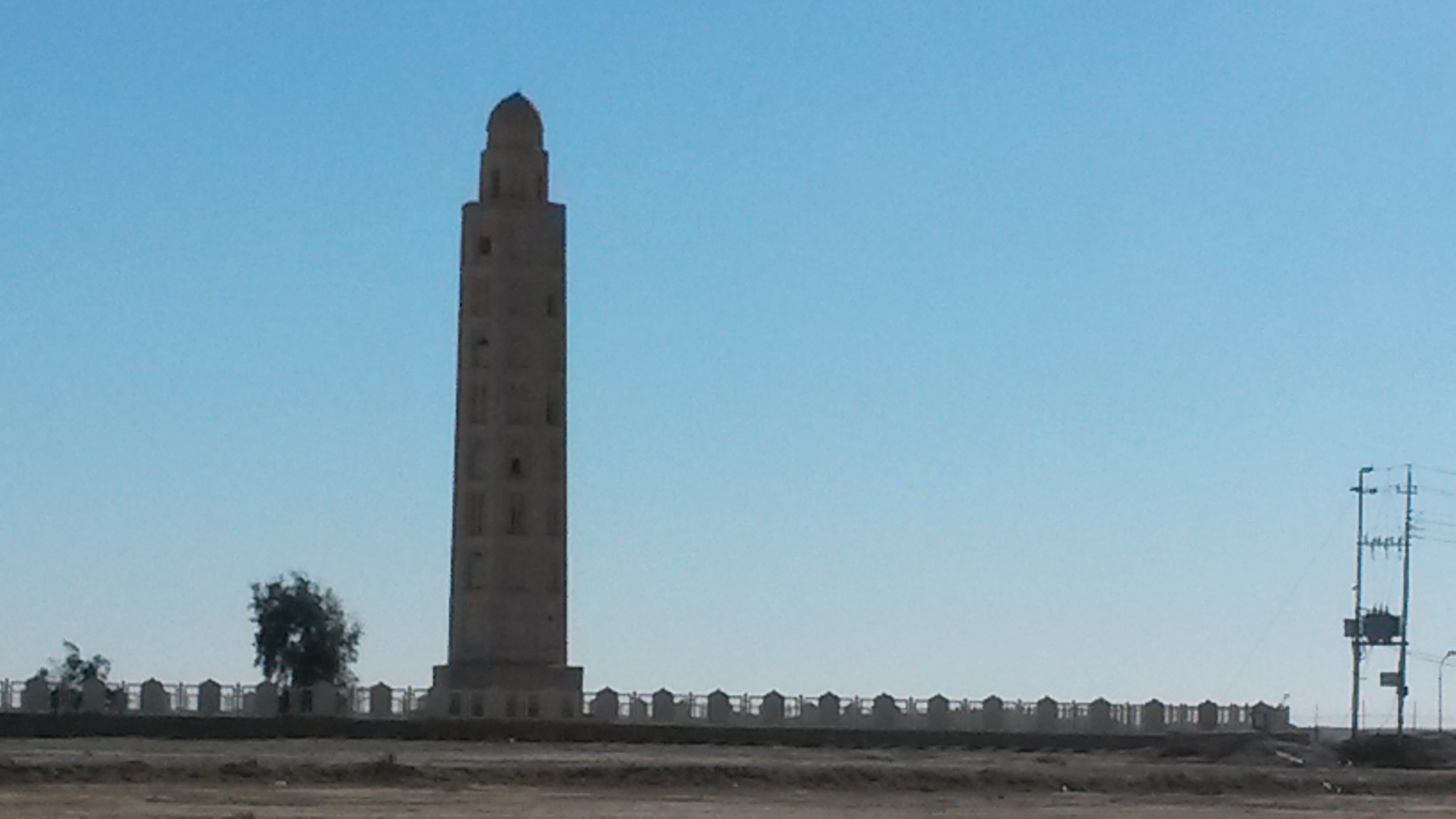 Manarat Anah in Iraq